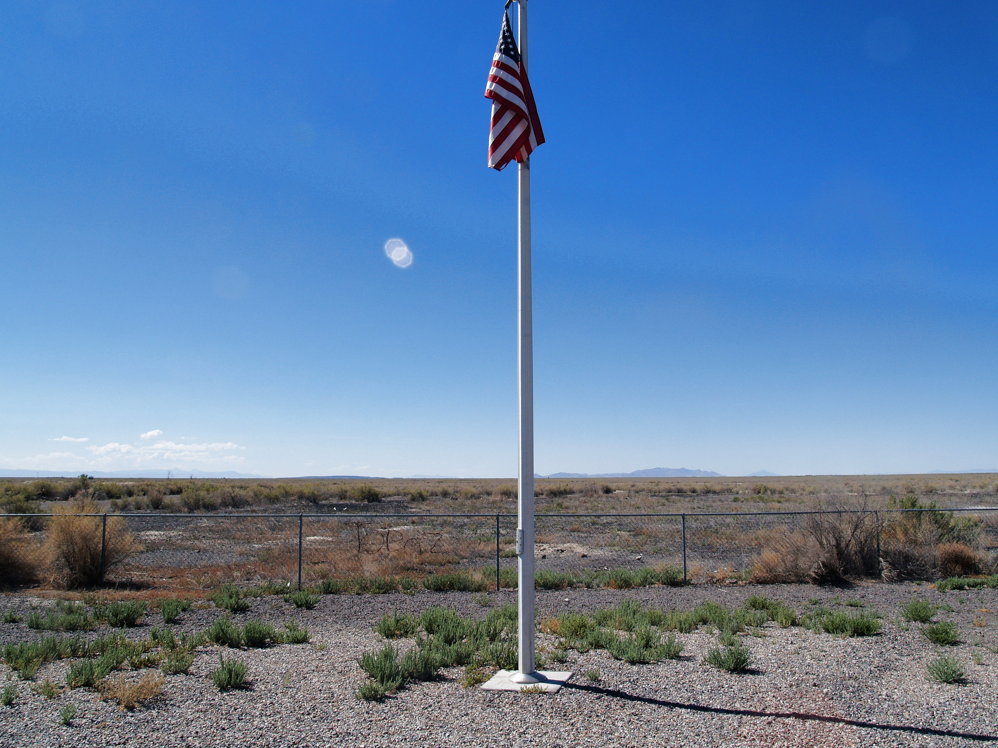 A photo of part of the Topaz Internment Camp (WWII) in central Utah.